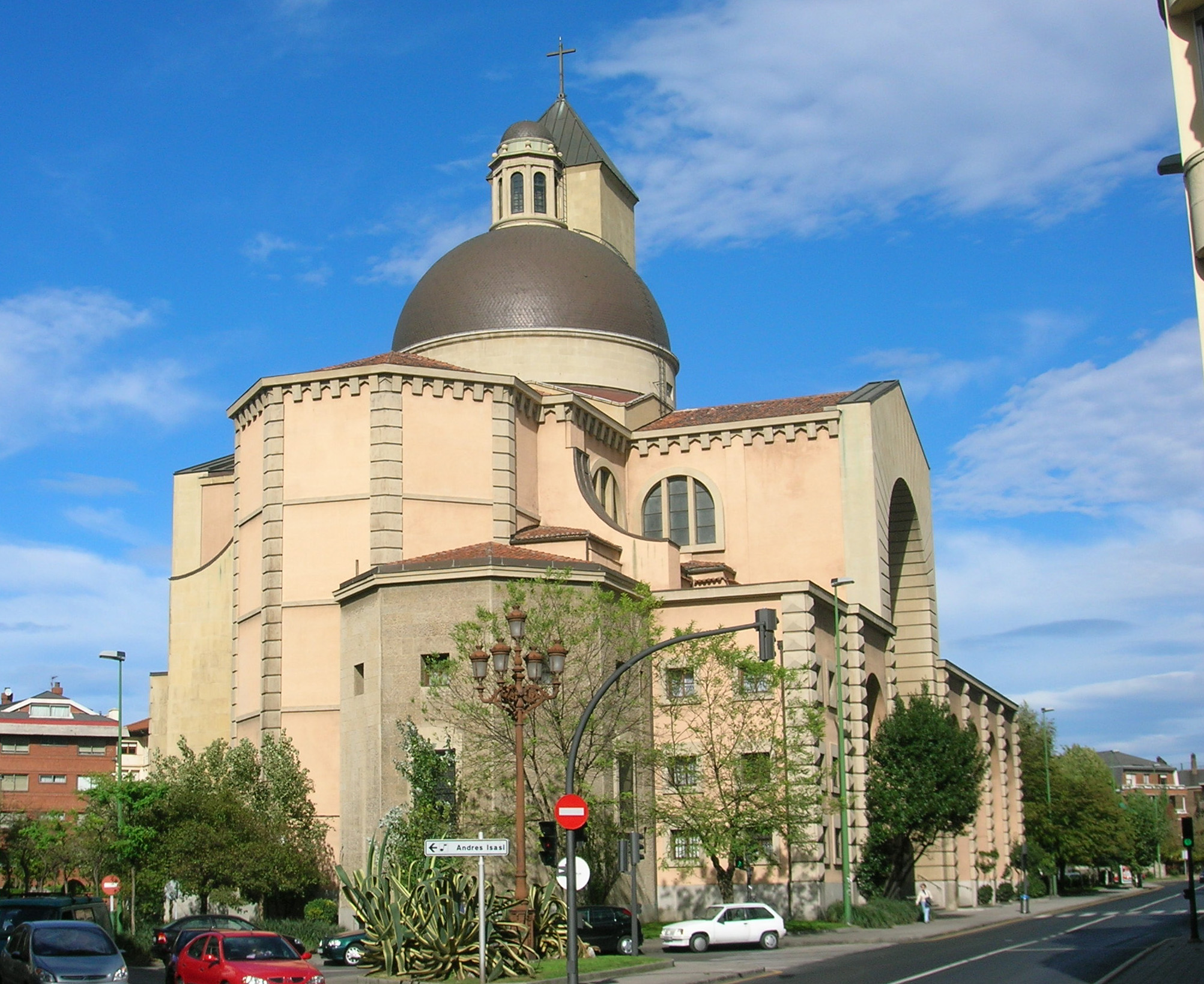 Nuestra Señora de las Mercedes / Mesedeetako Andramaria church, 1947, in Areeta / Las Arenas, Getxo, Biscay, Spain.